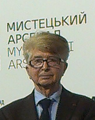 Georges Nivat